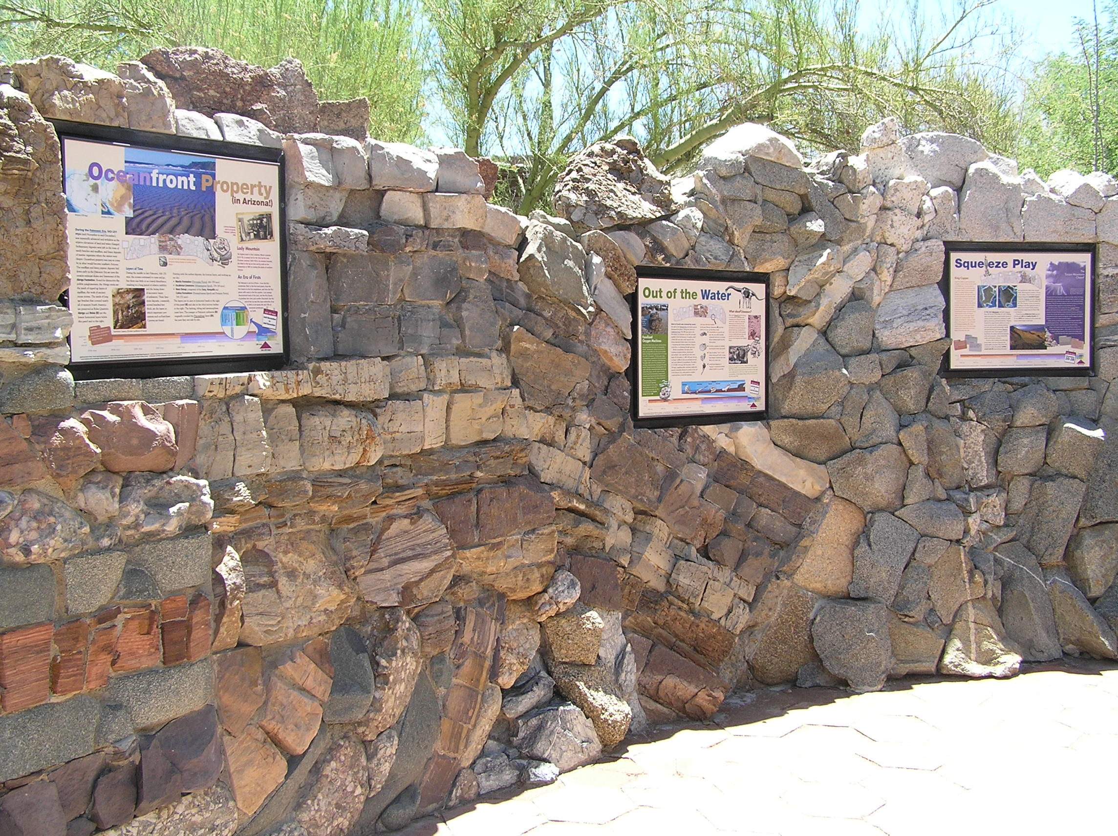 Geology Wall and Signage at Tohono Chul